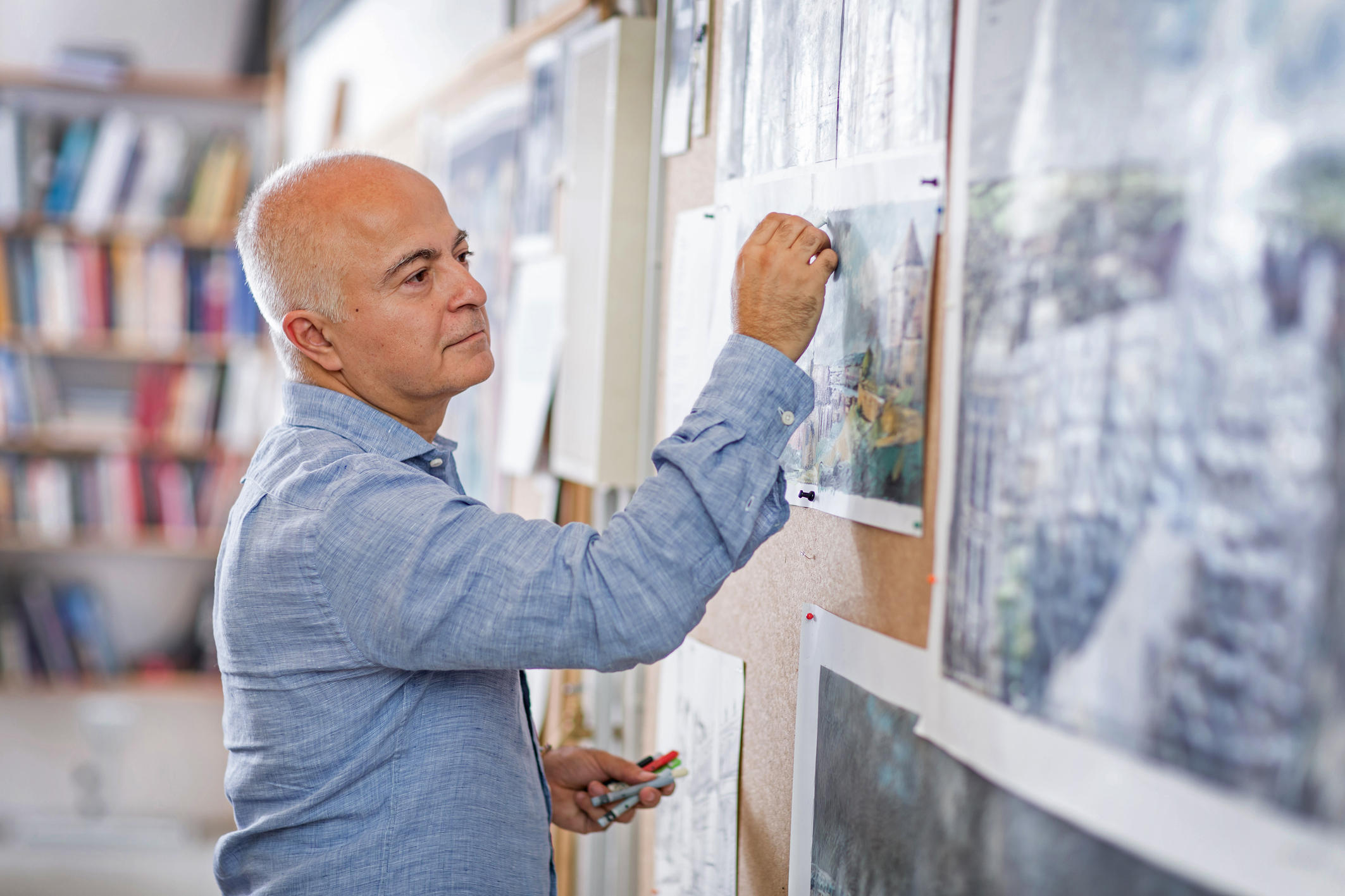 Yadegar Asisi in his studio photo Caro Krekow (c) asisi